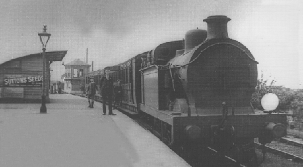 Whitstable habour station, Kent, beginning 1920th